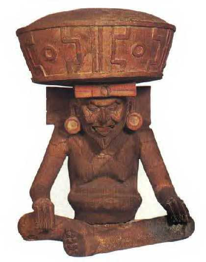 Huehueteotl — an Aztec god.